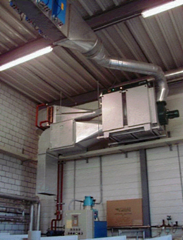 Recirculation unit with proportionate external air intake.